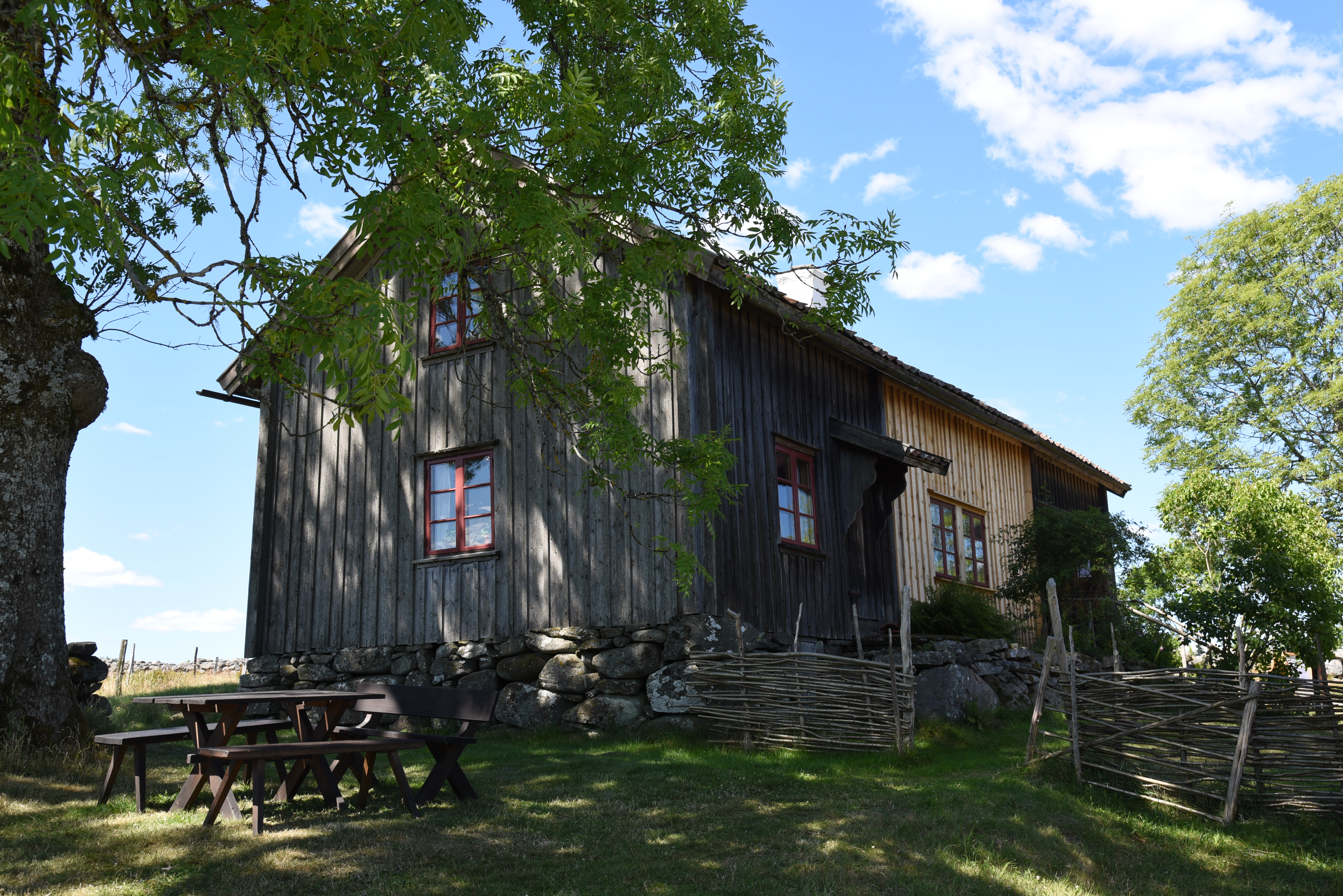 The village Äskhult in Förlanda socken, Kungsbacka community, Halland's county, Sweden. The farm house Bengts.